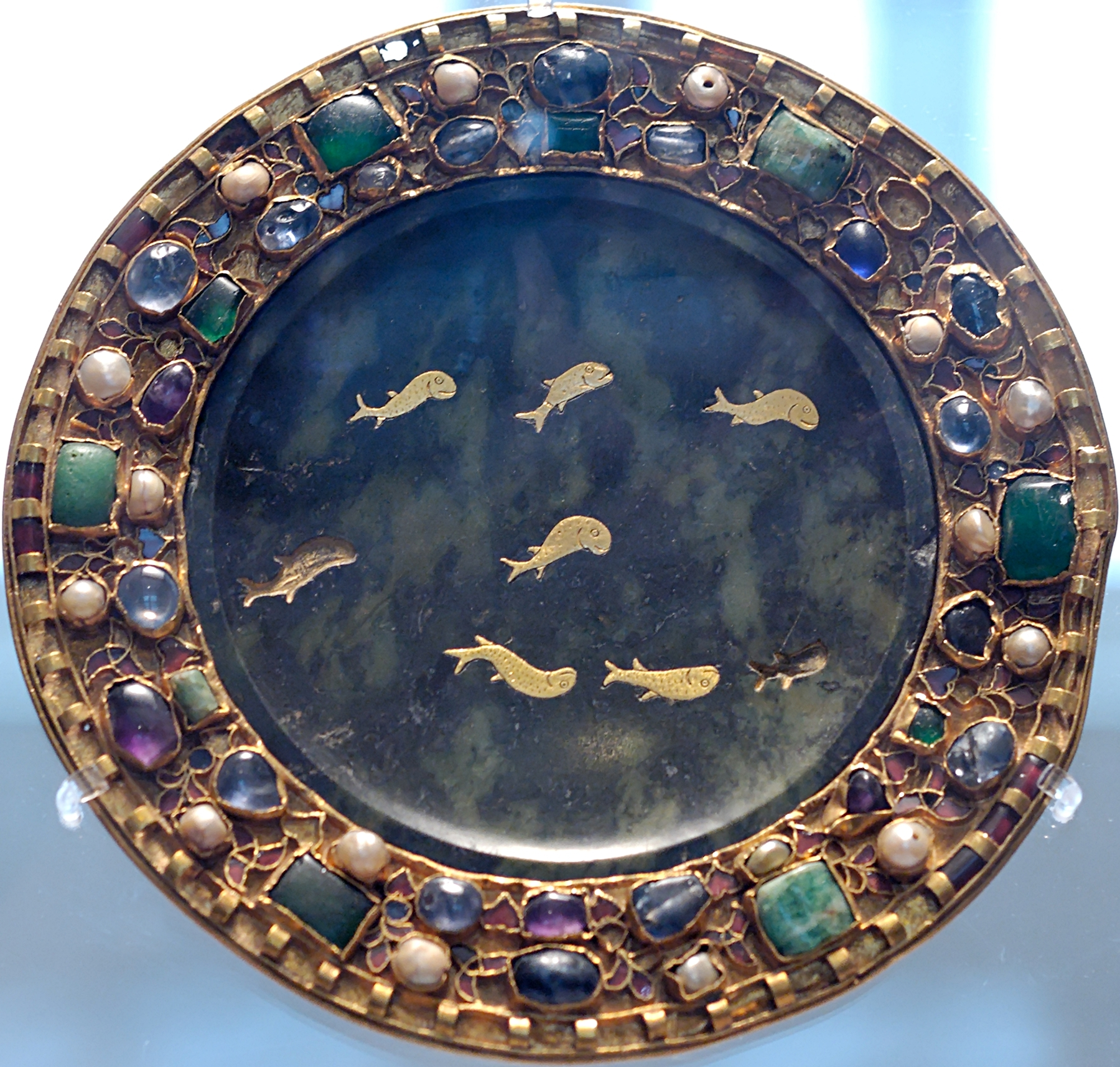 Serpentine paten with fish. Paten: 1st century BCE/CE; mount: court of Charles the Bald (second half of the 9th century). Serpentine, gold, glass and gems.